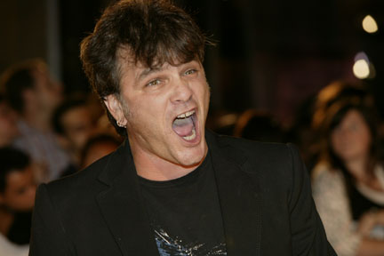 eTalk Star! Schmooze, Toronto International Film Festival party.